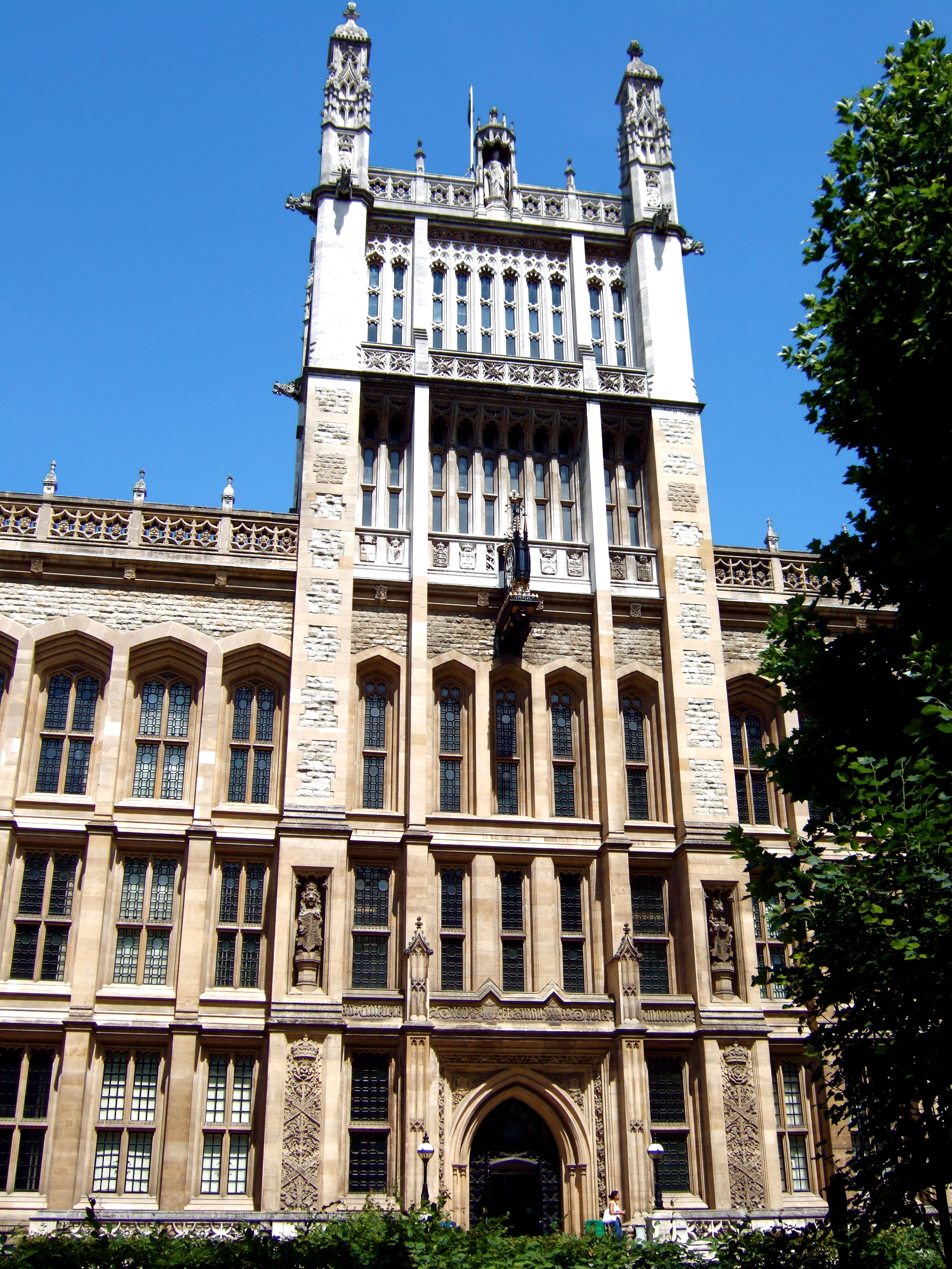 King's College London, clock tower of The Maughan Library, Chancery Lane, London UK.